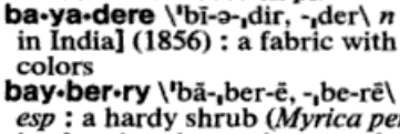 Hyphenation point (Unicode U+2027) used in a dictionary. Detail of page 105 of Merriam-Webster’s Collegiate Dictionary, 11th edition, Springfield MA (USA) 2003, ISBN 0-87779-807-9